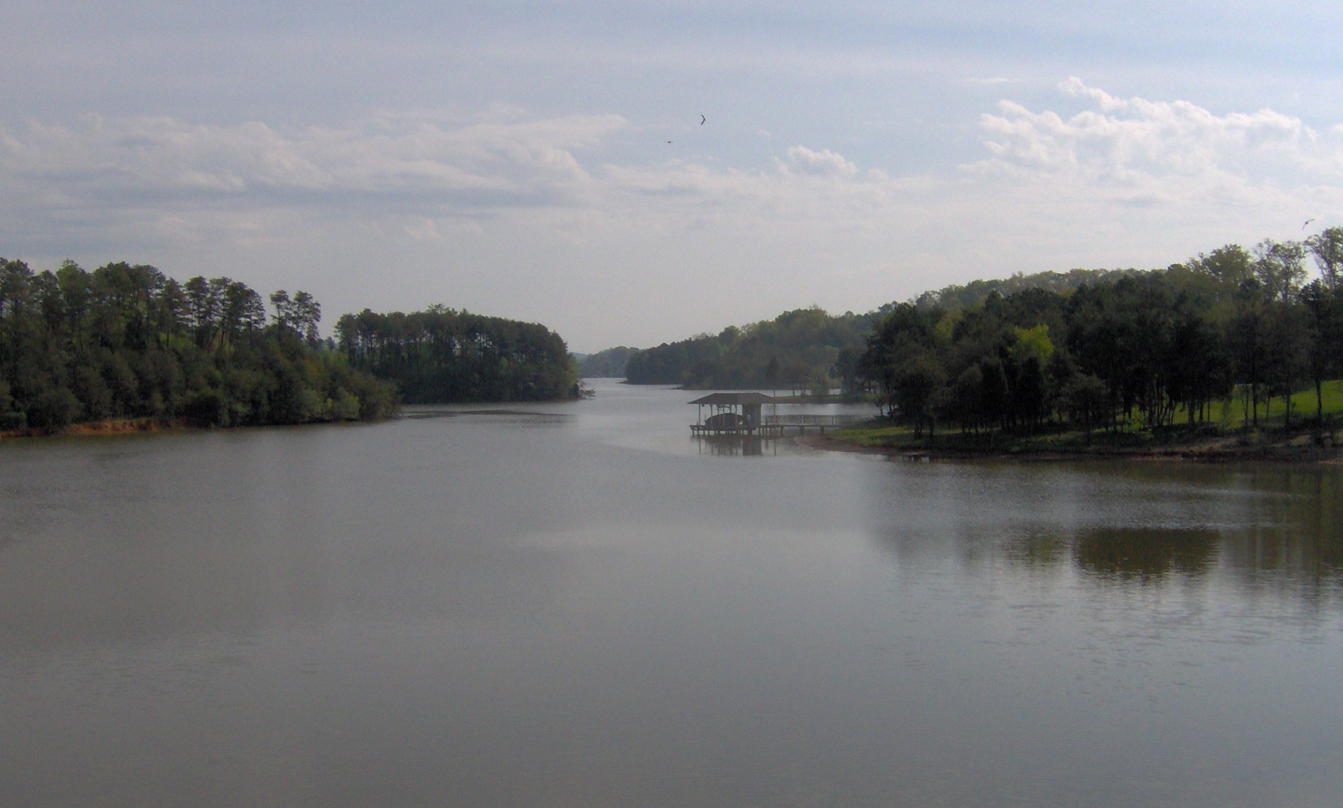 Bat Creek in Loudon County, Tennessee, in the southeastern United States. This view is from TN-72, a few miles north of the road's junction with US-411 in Vonore.